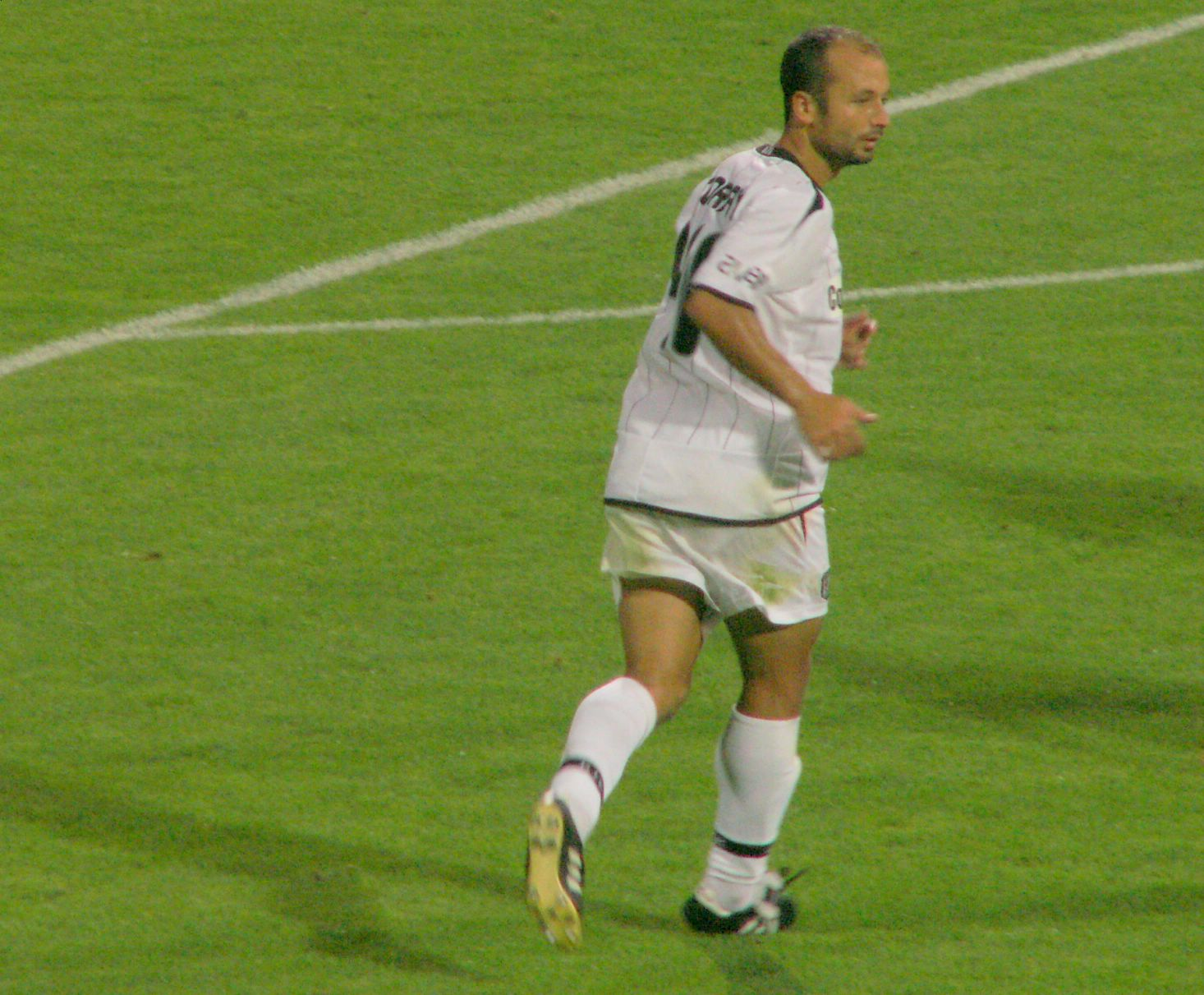 A photo of Jose Kleberson from a Besiktas match.